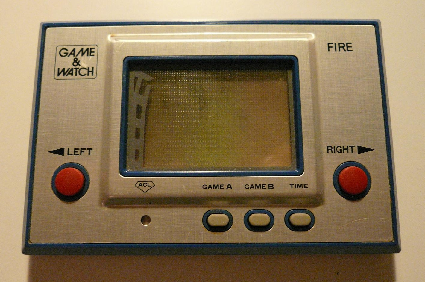 Fire - Game&Watch - Nintendo